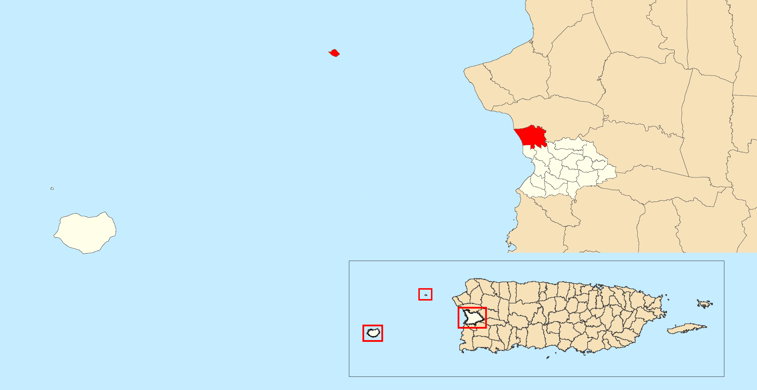 Sabanetas, Mayagüez, Puerto Rico locator map